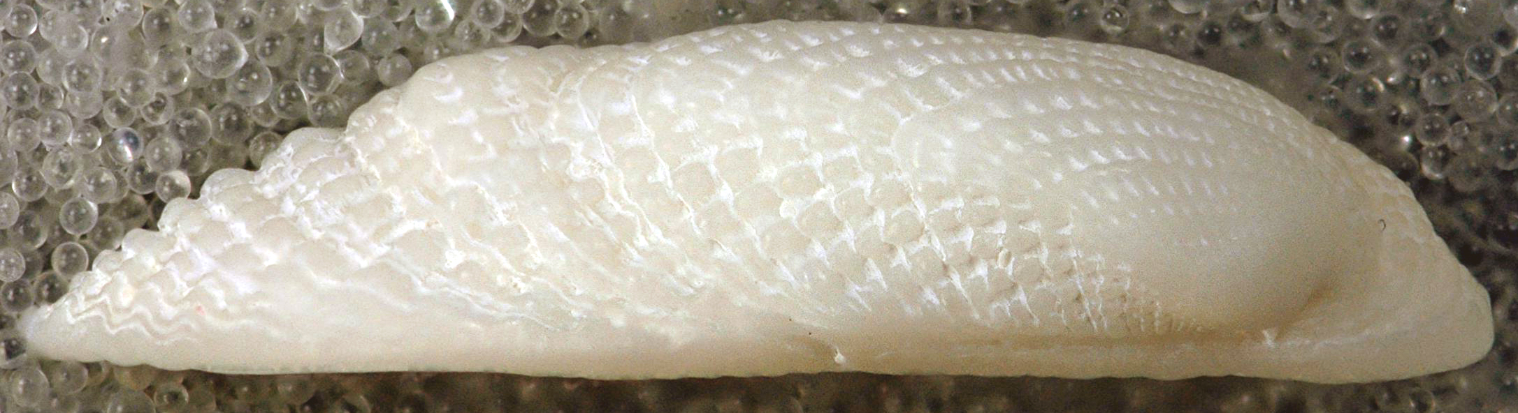 Acar notabilis (Lamarck, 1819) - dorsal view of left valve of the white miniature ark, 2.65 cm across at its widest. Anterior to the right & posterior to the left. Family Arcidae (Jurassic to Holocene) - the ark clams are filter feeders, principally inhabiting shallow, warm- to cold-water marine settings.